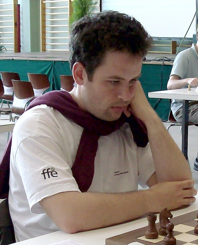 Christian Bauer, chess grandmaster from France